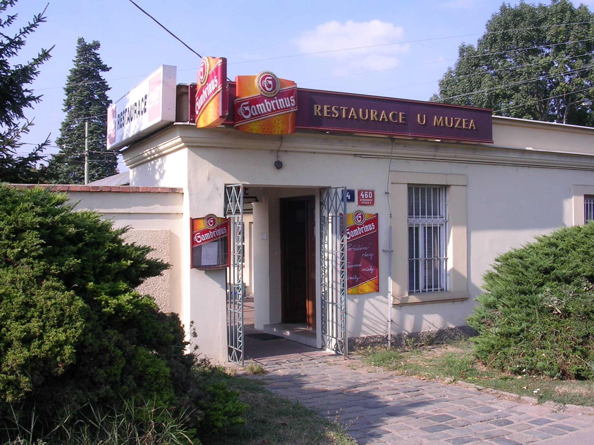 Střešovice, Prague, the Czech Republic. Tram depot, a restaurant near the entry of transport museum.